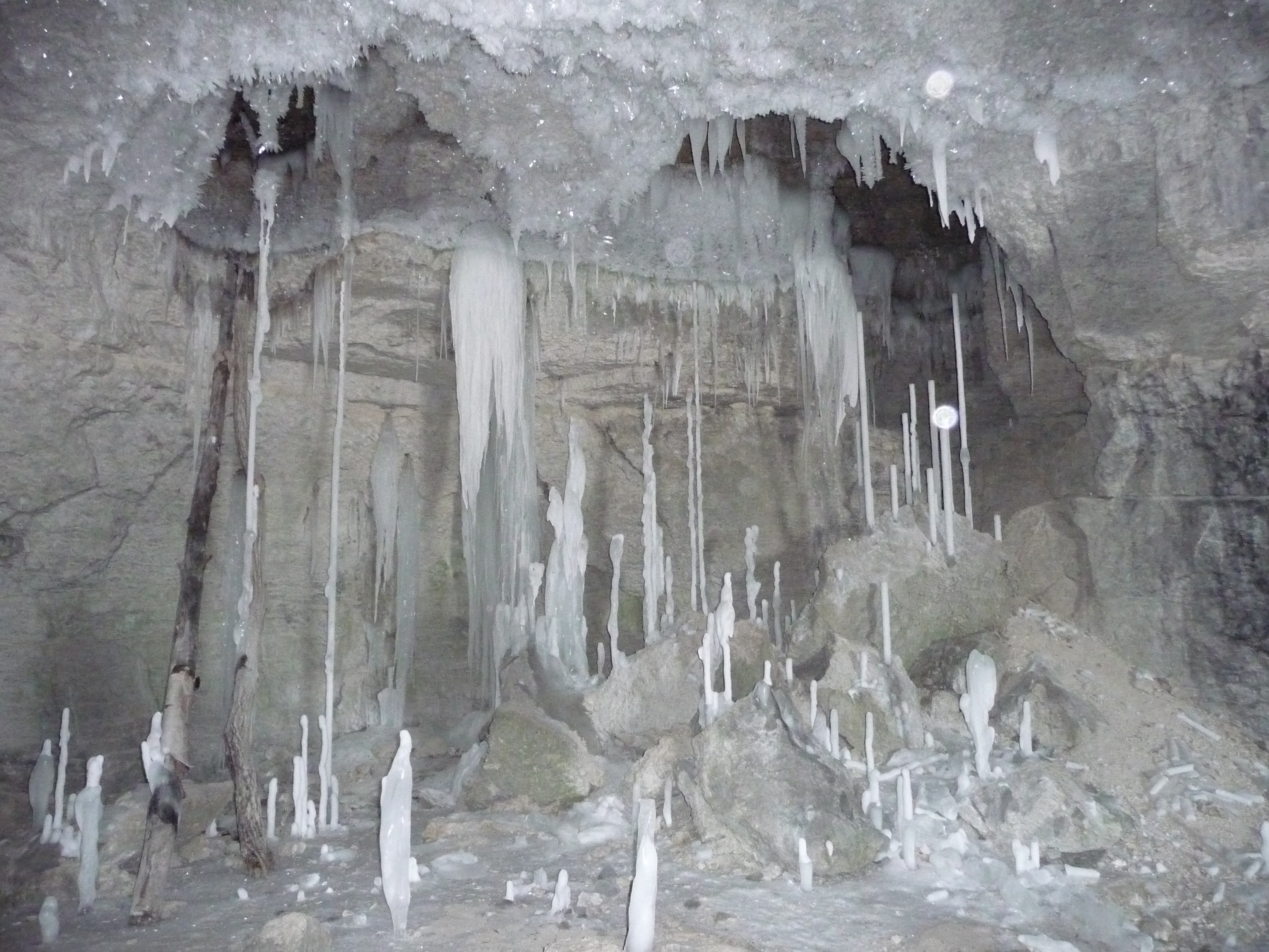 Gipsy-1 adit in near Tenishevo, Tatarstan, Russia